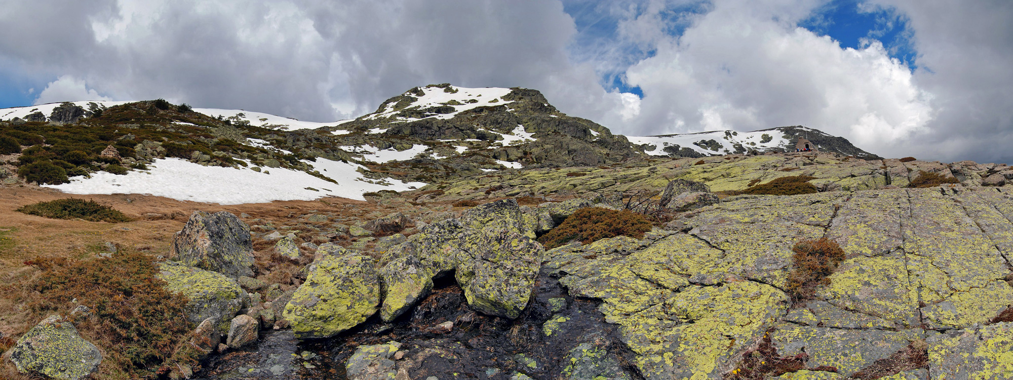 East face of Peñalara peak seen from Cabeza Mediana's summit (Guadarrama mountain range, Central Spain).